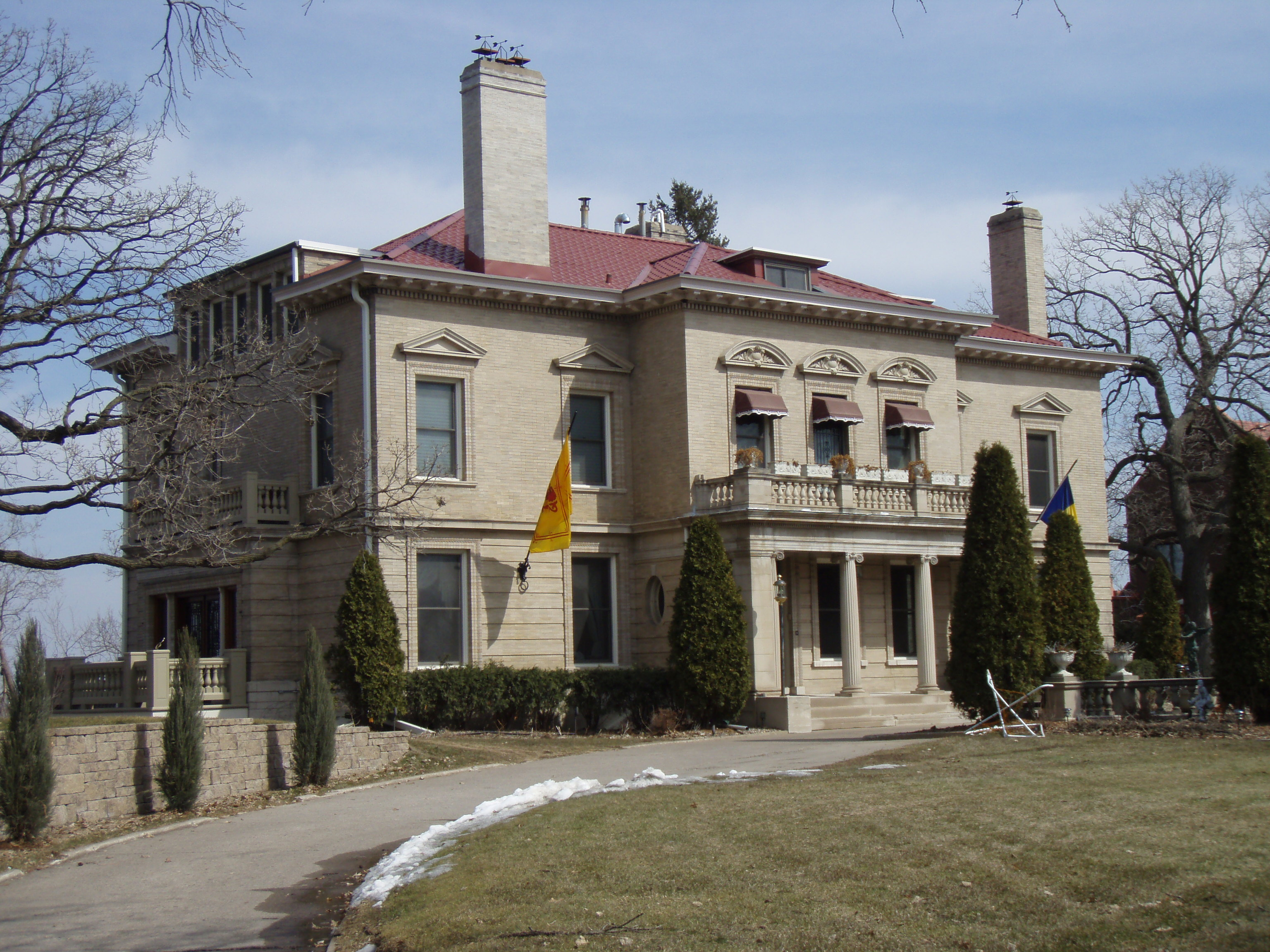 Charles J. Martin House in Minneapolis, Minnesota, listed on the National Register of Historic Places.